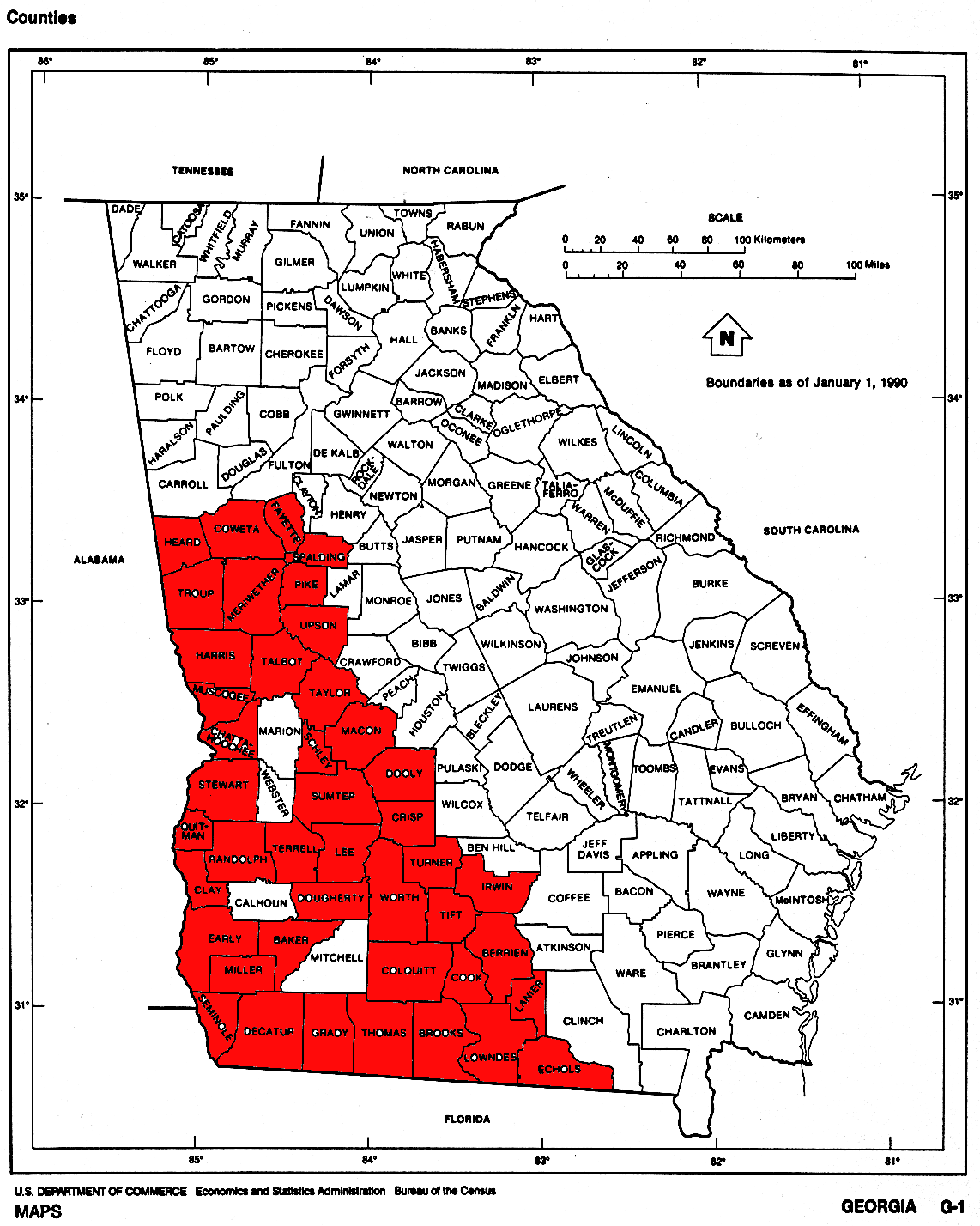 Edited U.S. Census Bureau data in w: .